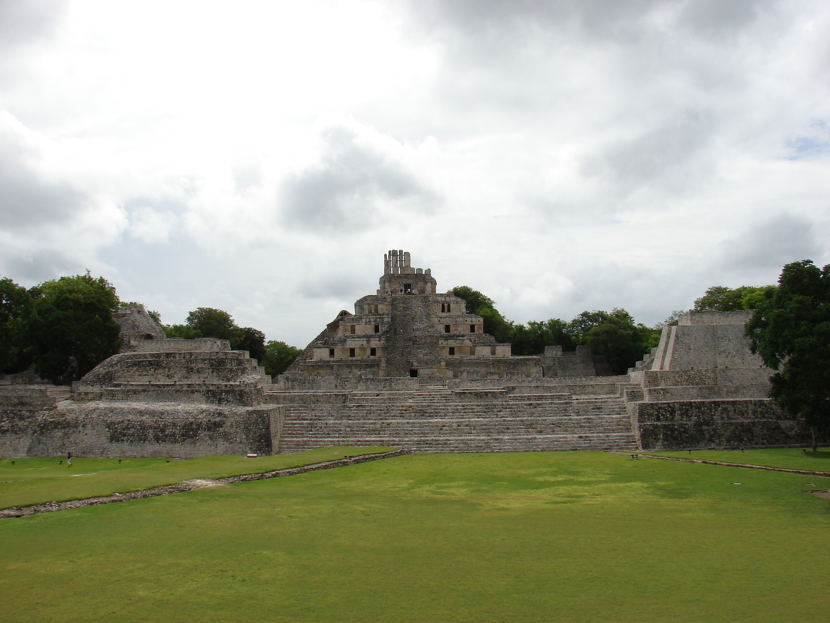 The main seat of Archeological Site of Edzná, in the mexican state of Campeche.